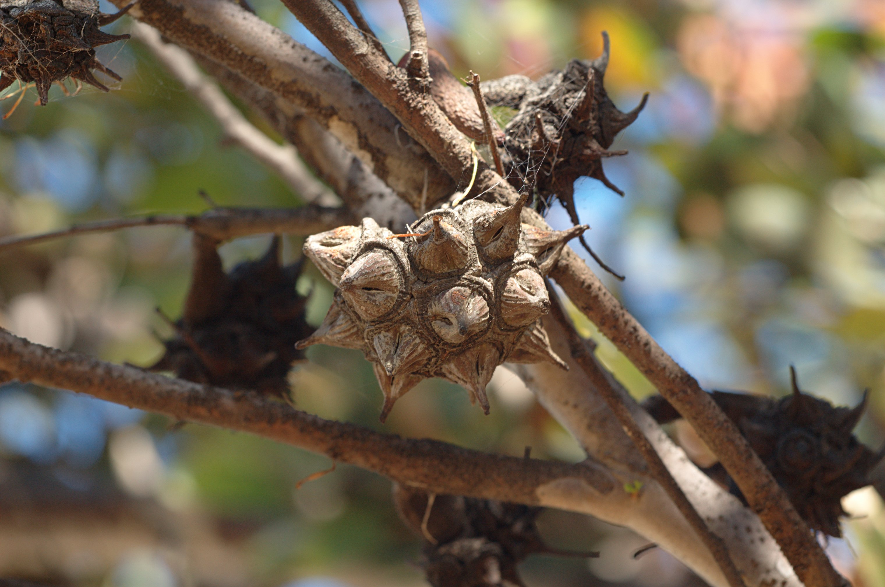 Probably Bald Island Marlock (Eucalyptus conferruminata), fruit clusters or gum nuts. East Devonport, Devonport, Tasmania, Australia.